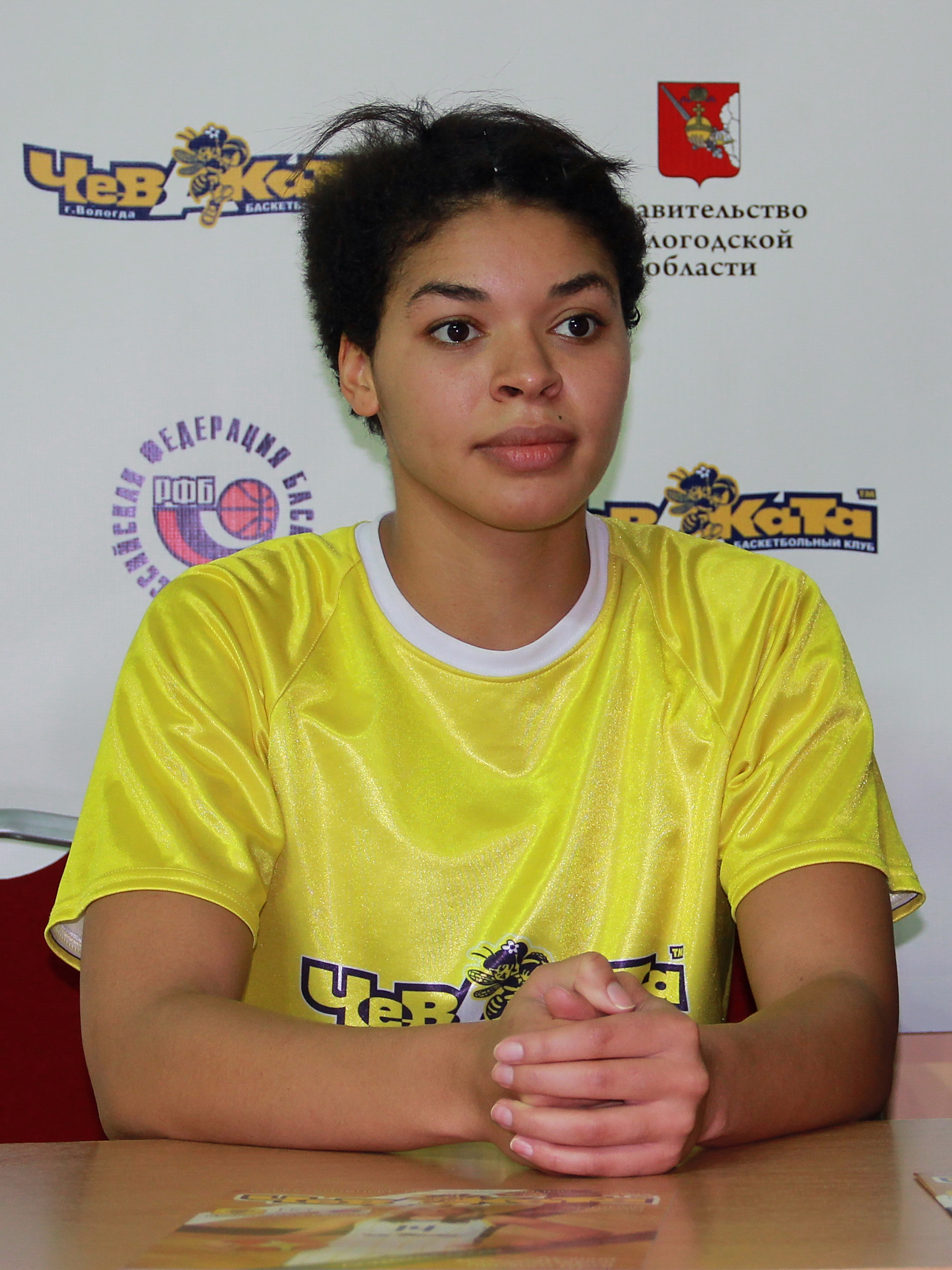 Russia, Vologda, Katerina Keyru after game «Vologda-Chevakata» vs «UMMC» (Ekaterinburg)